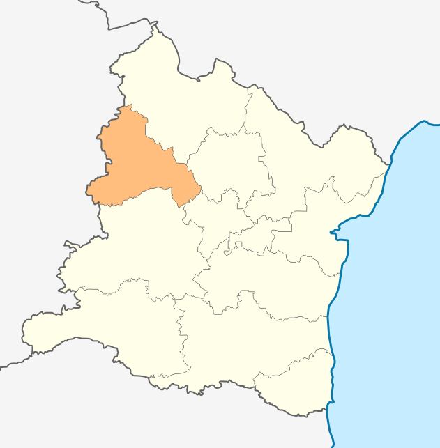 Map of Vetrino municipality, Varna Province